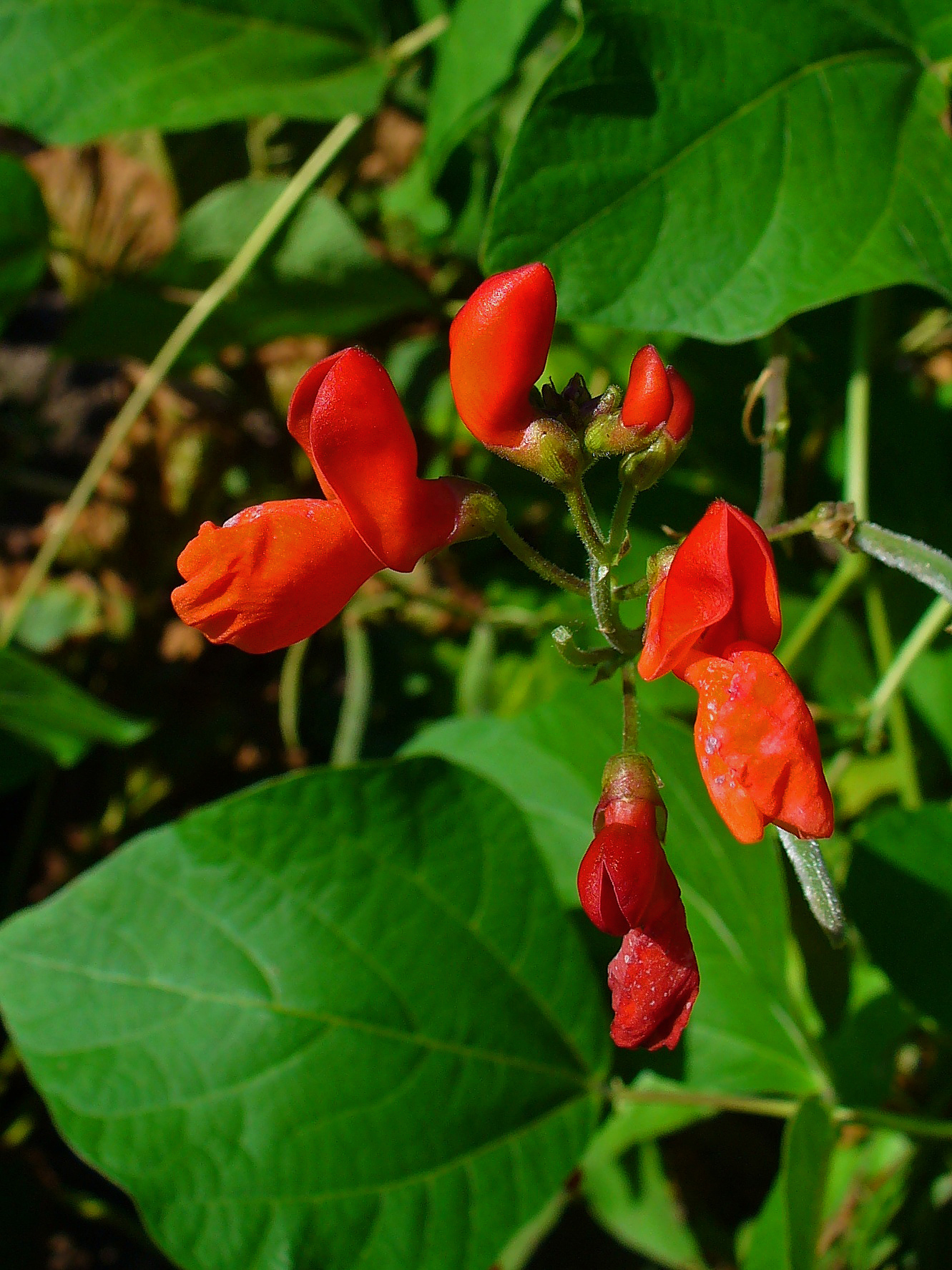 Phaseolus coccineus, Fabaceae, Runner Bean, inflorescence. Botanical Garden KIT, Karlsruhe, Germany.